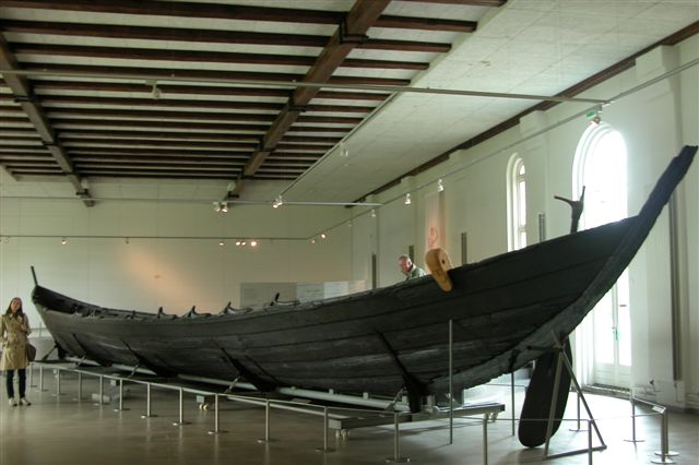 Nydam Boat, Gottorp Castle, Sleswig